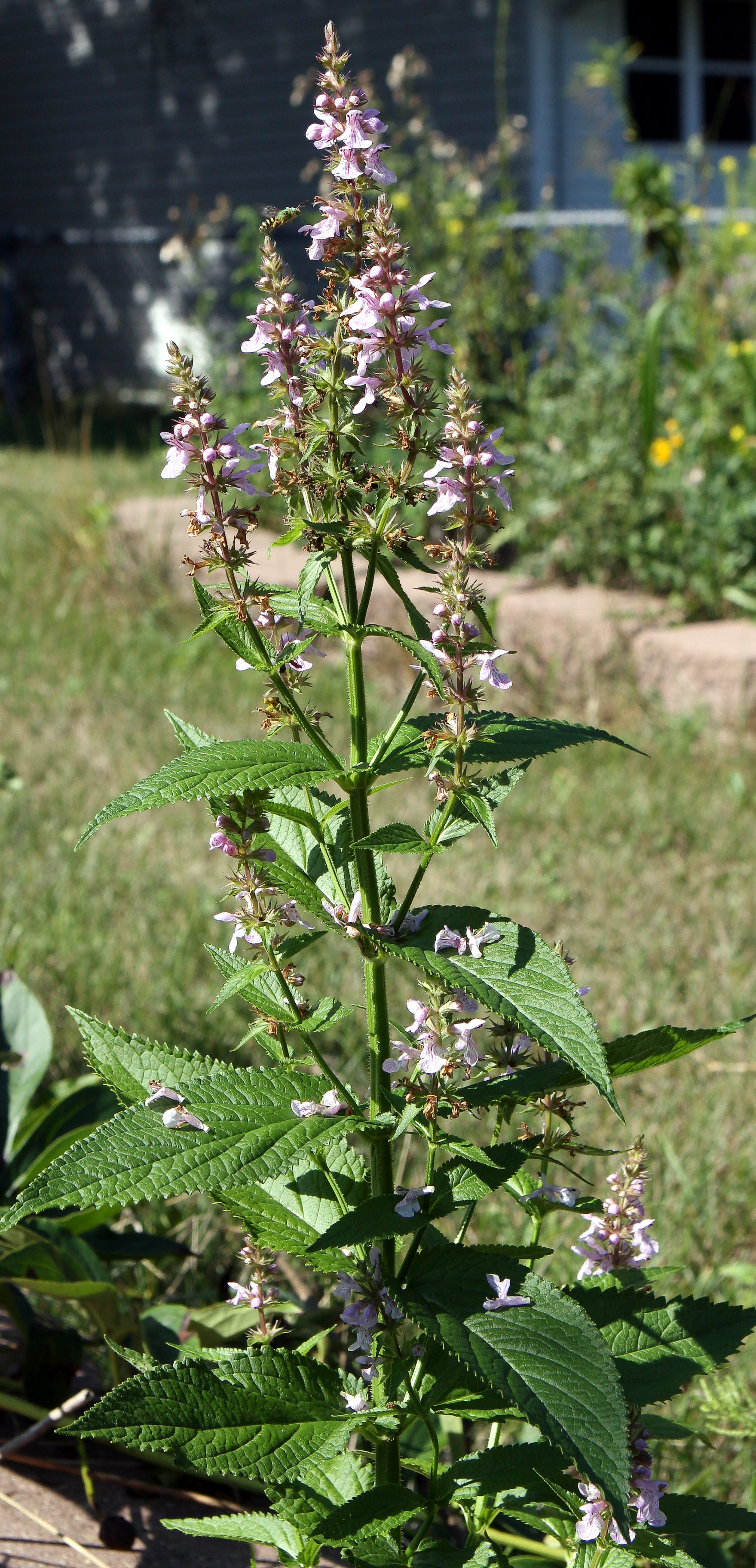 Self made picture of Stachys tenuifolia var. hispida taken summer of 2008.